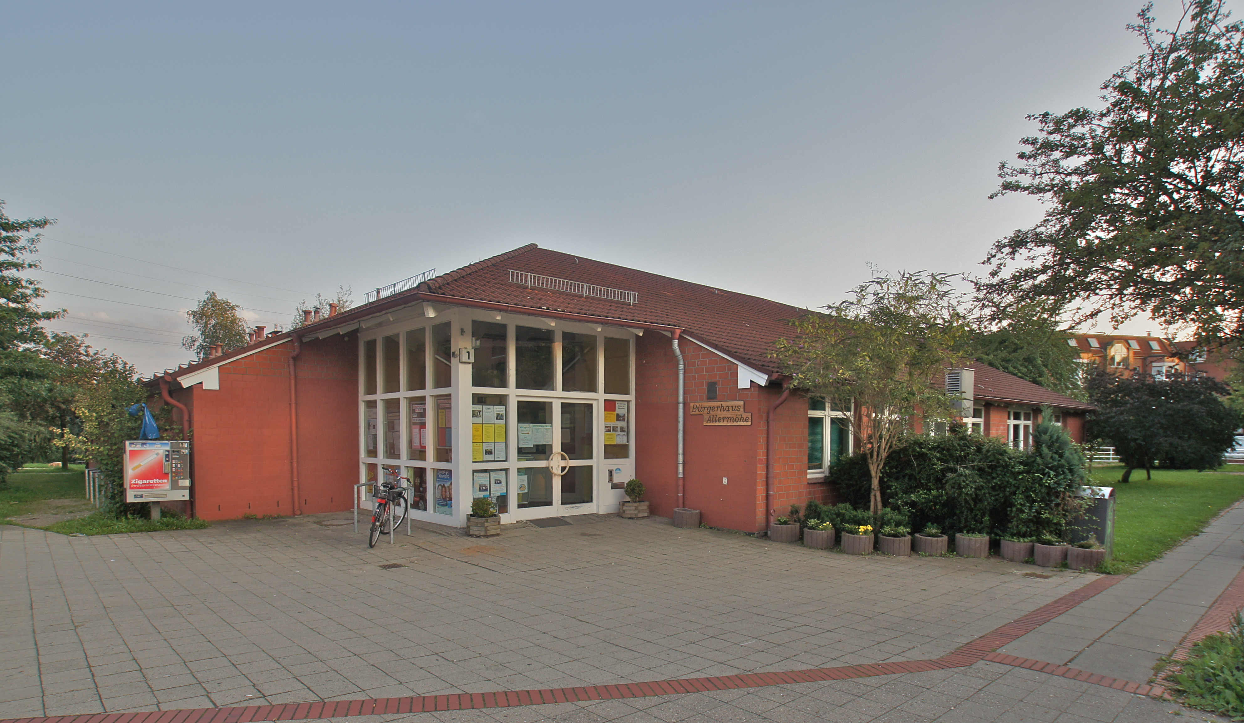 Hamburg (Neuallermöhe), Germany: Citizens' House